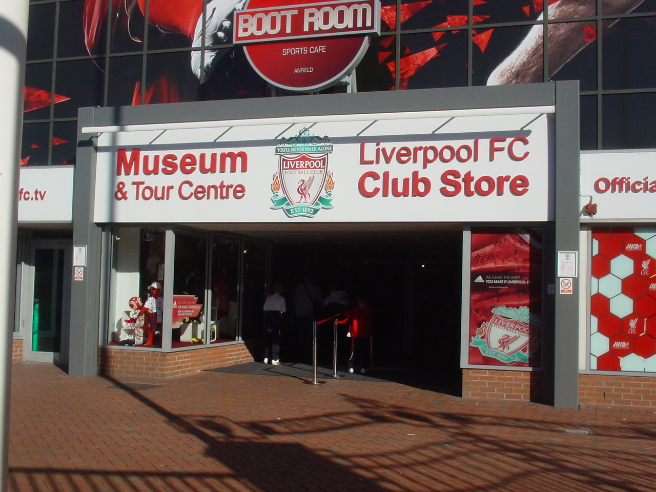 Entrance to Liverpool FC Museum and Club Store, Anfield, Liverpool.